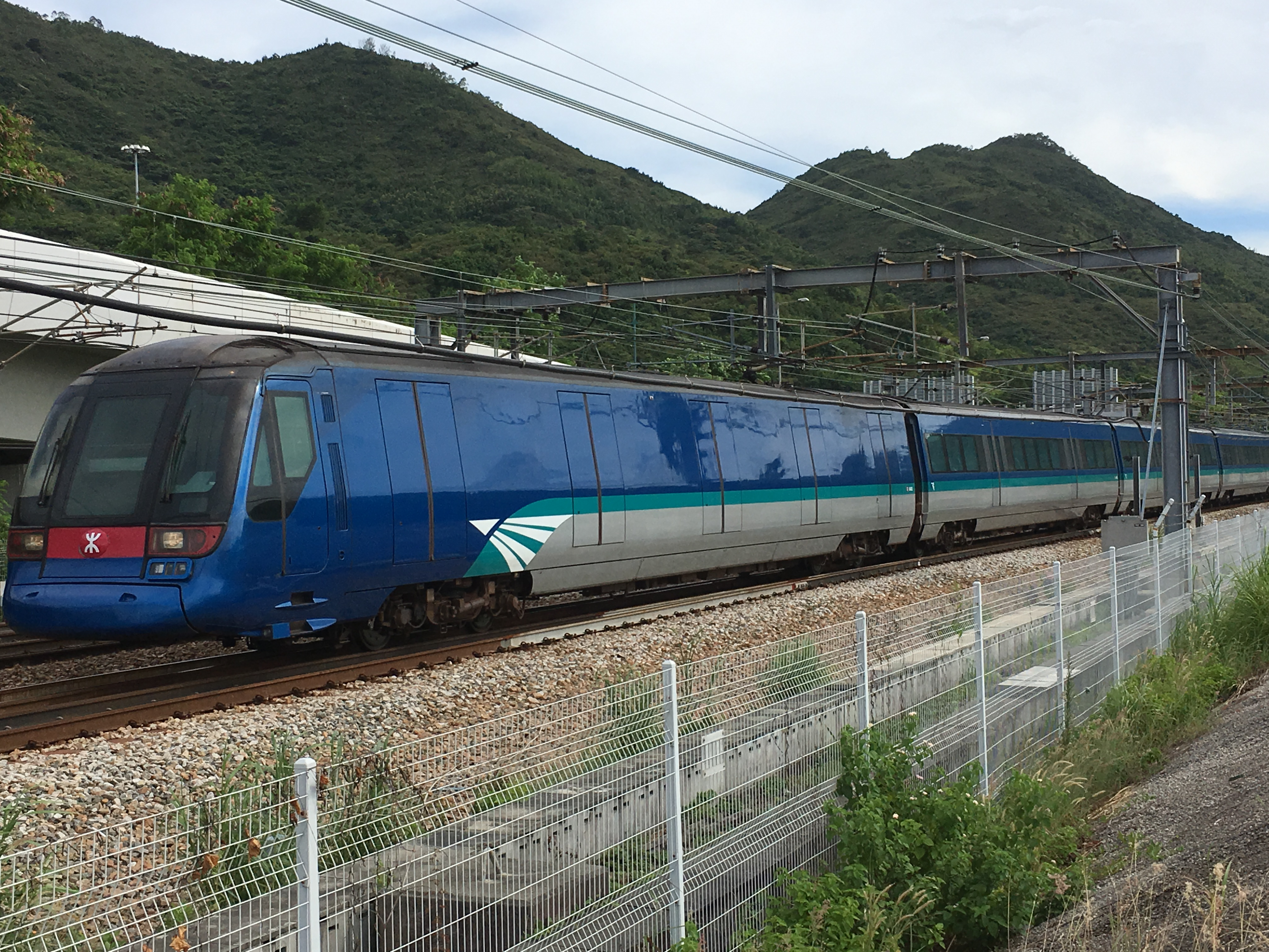 This photo is taken in Sunny Bay.